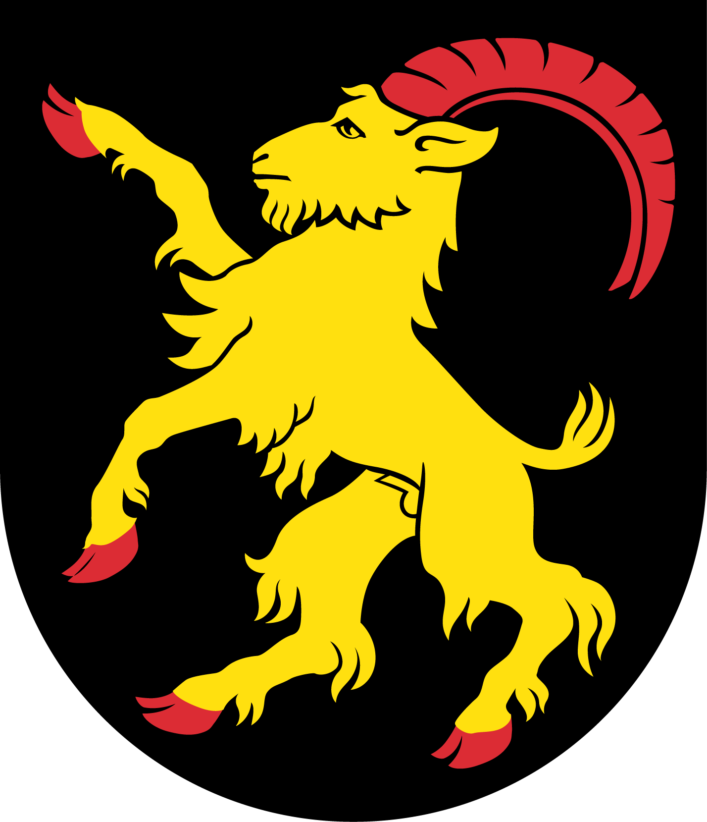 Coat of arms of the province of Hälsingland, Sweden. Painted by Vladimir A. Sagerlund when he was the heraldic artist at the National Archives of Sweden (Riksarkivet). This representation of a coat of arms is potentially different from the one used by the armiger (municipality or organisation) in question. = ⇑“Sable, a lionrampant or” This coat of arms was drawn based on its blazon which – being a written description – is free from copyright. Any illustration conforming with the blazon of the arms is considered to be heraldically correct. Thus several different artistic interpretations of the same coat of arms can exist. The design officially used by the armiger is likely protected by copyright, in which case it cannot be used here.Individual representations of a coat of arms, drawn from a blazon, may have a copyright belonging to the artist, but are not necessarily derivative works. Further information: Commons:Coats of arms and Template:Coa blazon